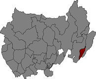 Location of Cabanabona in Noguera